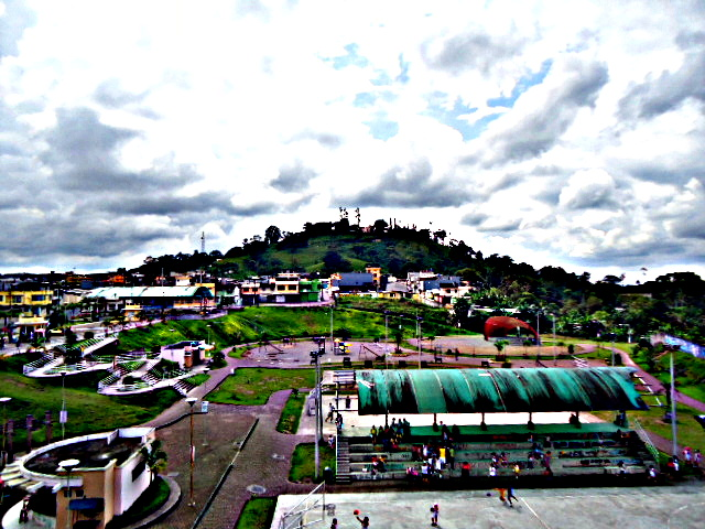 View this hill Bombolí located west of the city.